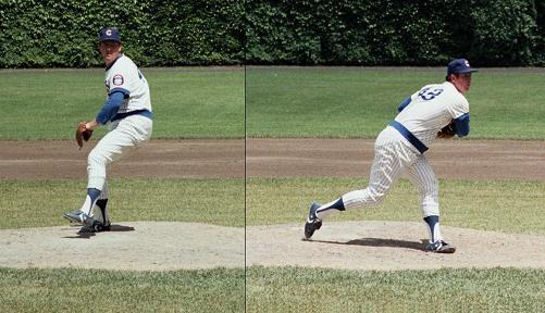 Rick Reuschel pitching in a 1981 game.